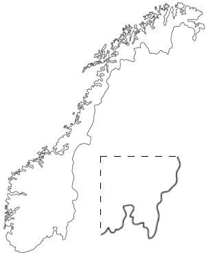 Outline of Norway